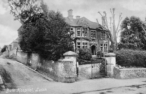 Old postcard of the Bute Hospital, Luton